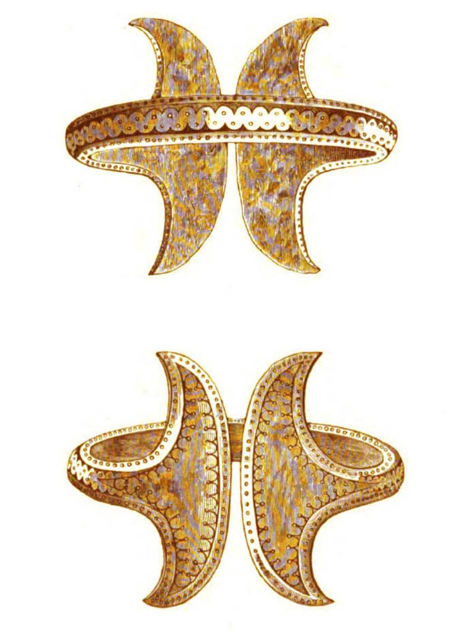 Bracelet from Transylvania; Dated Bronze Age; The author, Joseph Hampel (1849-1913), Hungarian scholar published it in Archaeologiai értesítő XIV Tabla XXXV, and described it at pp. 214-216